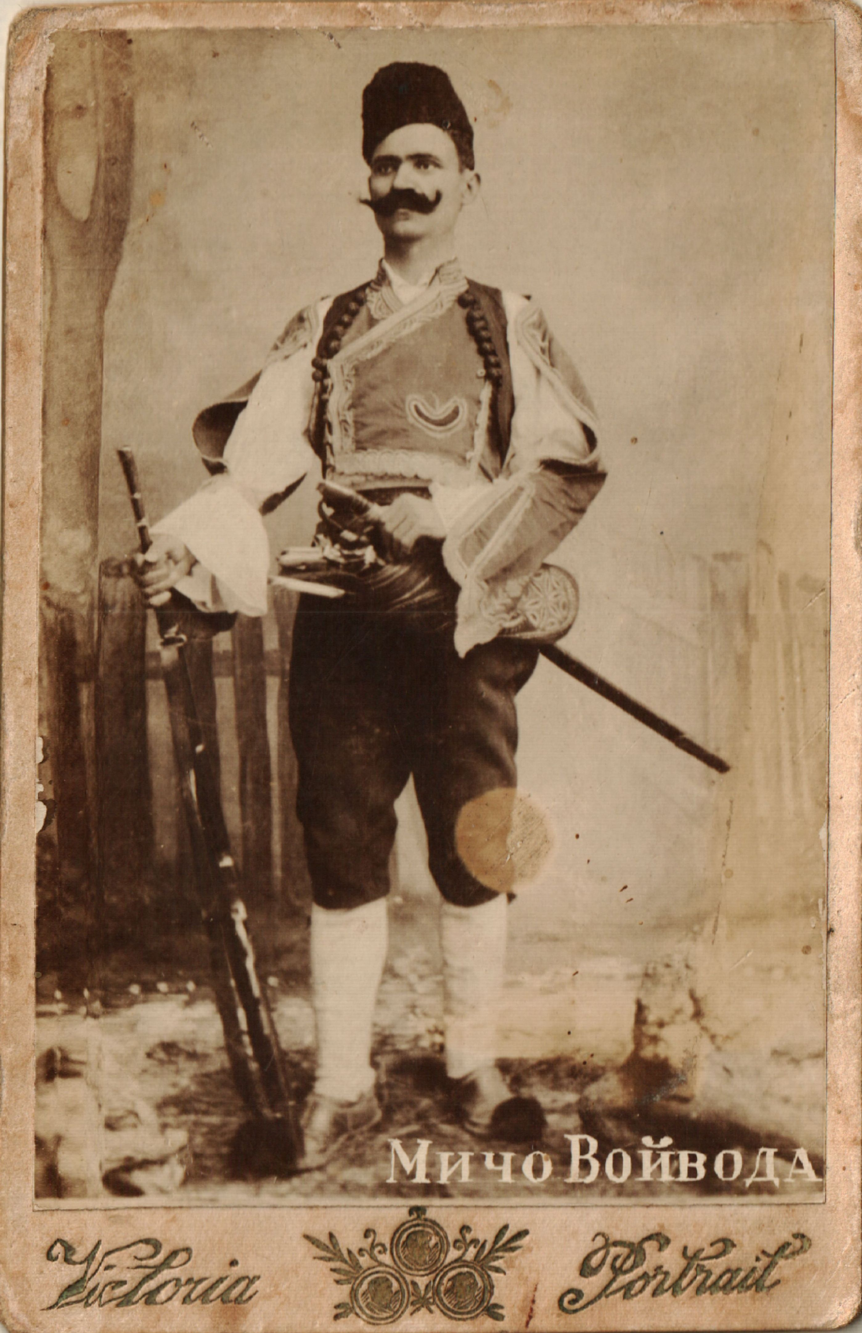 Micho Voyvoda